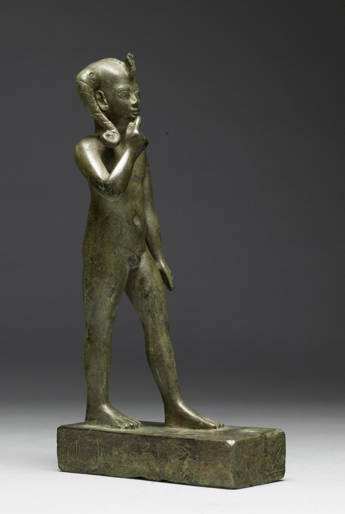 Harpocrates or "Horus the Child" was the son of Isis and Osiris. He represents legal kingship as mythical successor of his father Osiris, who, in death, became Lord of the Netherworld. He was especially popular in the Late and Greco-Roman periods. Representations such as this show him as a nude boy with his finger to his mouth, and a sidelock of hair, the symbols of childhood. Here he also has a uraeus (a cobra serpent) above his forehead, symbolizing his entitlement to kingship.